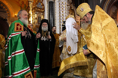 CATHEDRAL OF CHRIST THE SAVIOUR, MOSCOW. At the enthronement ceremony for Kirill, the Patriarch of Moscow and All Russia. The priest is presenting the patriarchal koukoulion (headress) to the new patriarch.